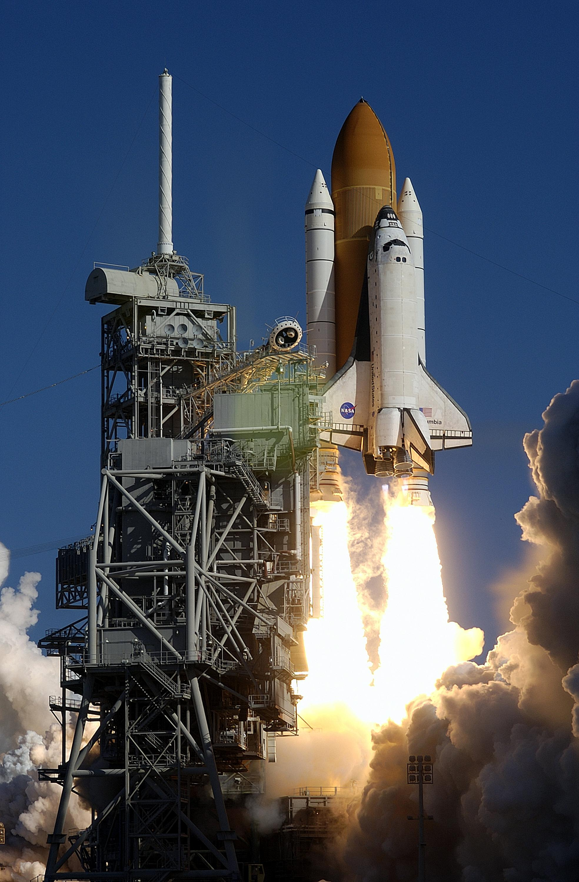 Space Shuttle Columbia leaps off Launch Pad 39A and races toward space on missions STS-107. Following a flawless and uneventful countdown, liftoff occurred on-time at 10:39 a.m. EST (15:39 UTC)